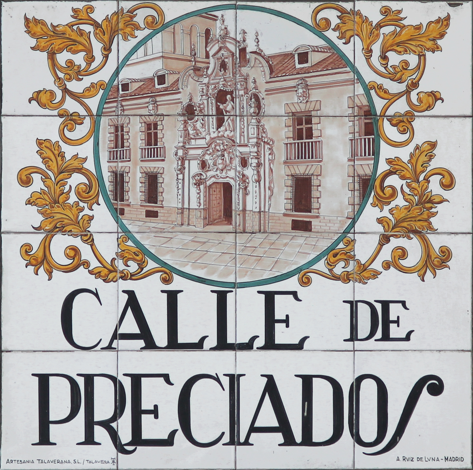 Sign of Calle de Preciados (street) in Madrid (Spain).